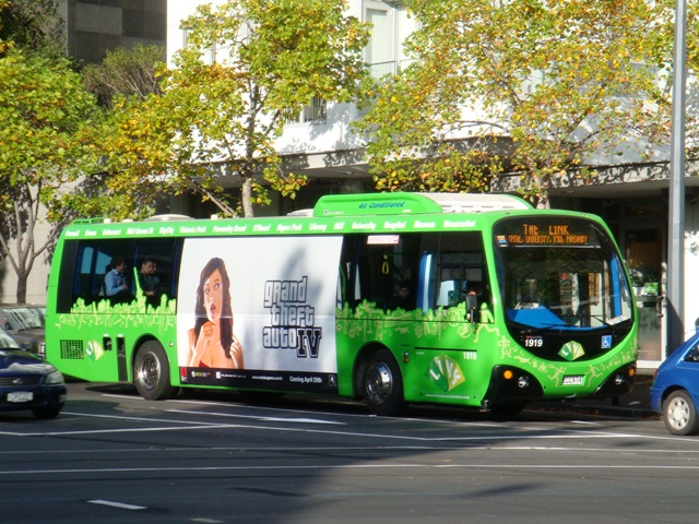 The Link